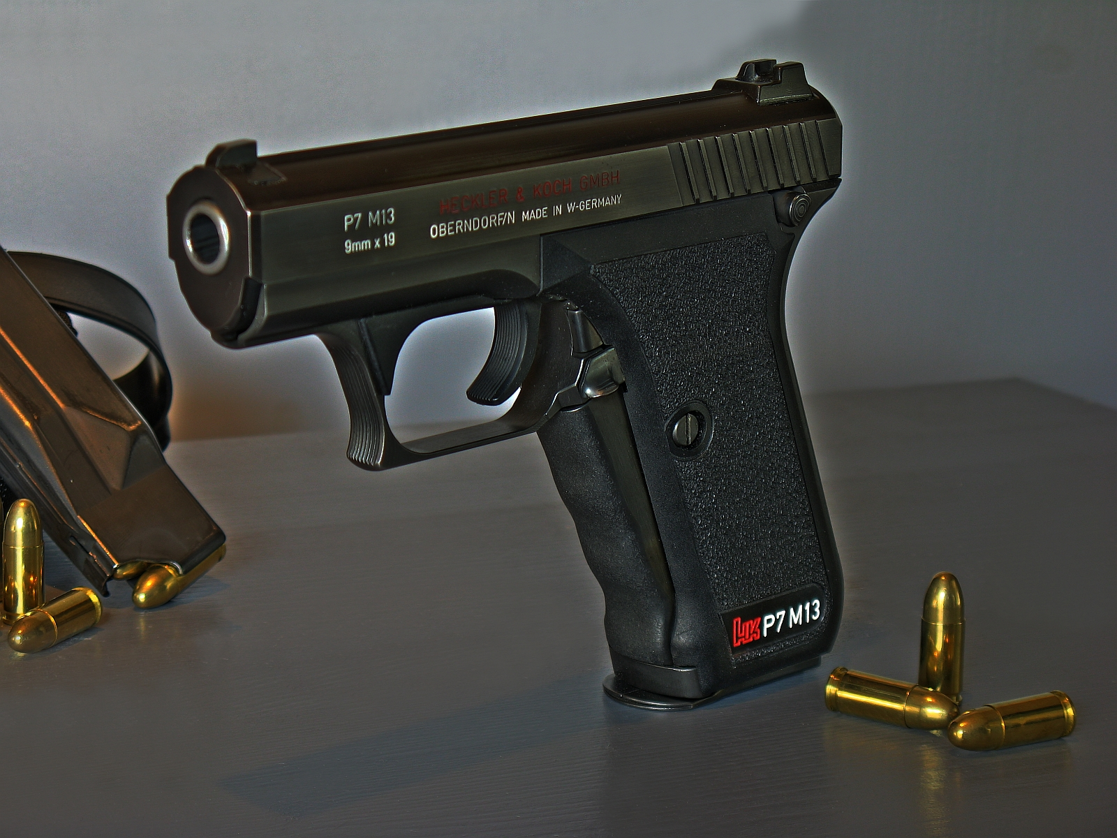 Pistol Heckler & Koch P7M13